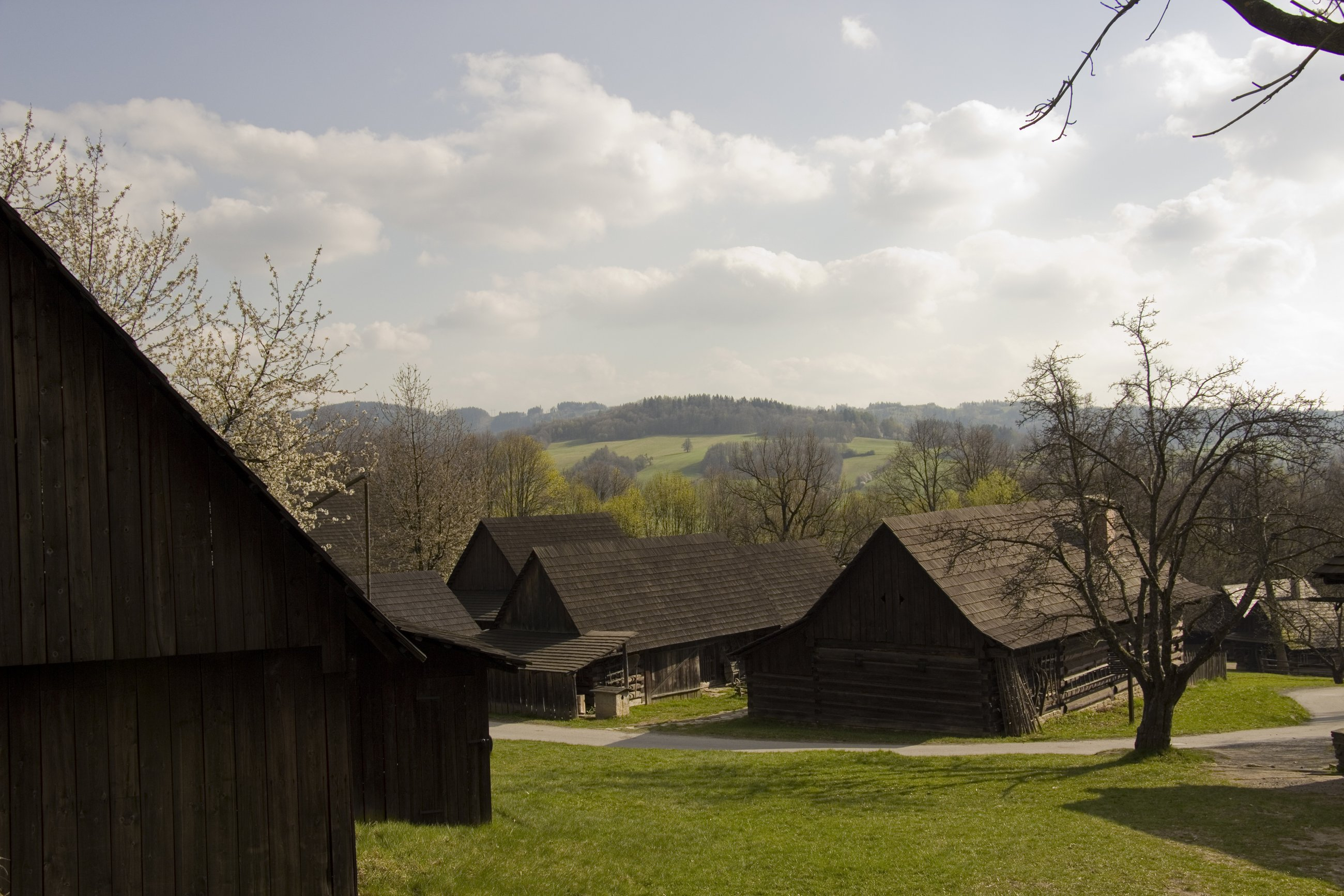 The Wallachian Village, general view